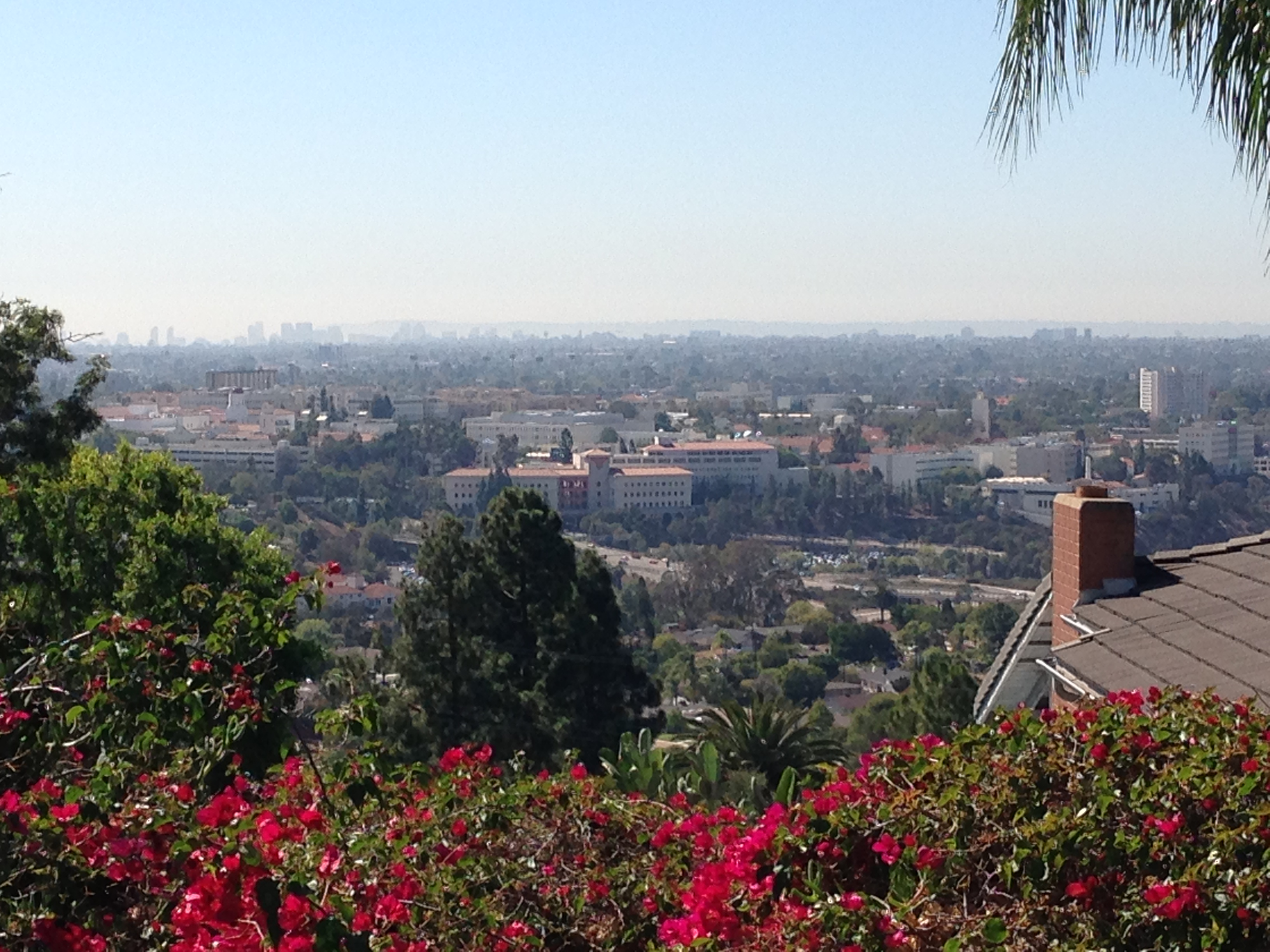 View over the SDSU area